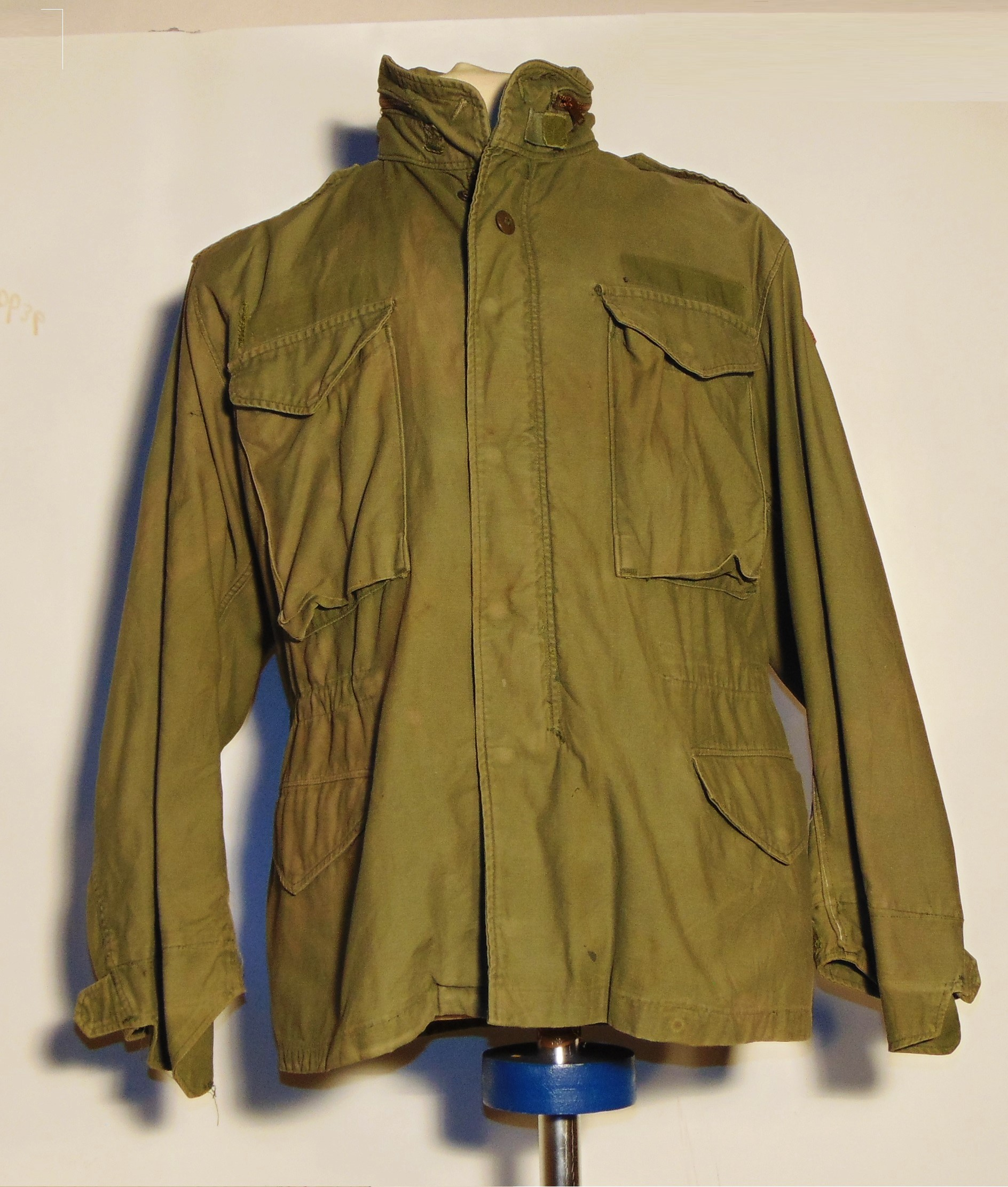 Coat, U.S. Cold Weather Field Jacket, on the left sleeve 82nd Airborne emblem. Photographed in the collection of the National Liberation Museum 1944-1945, the Netherlands, archive number 3.1.265.